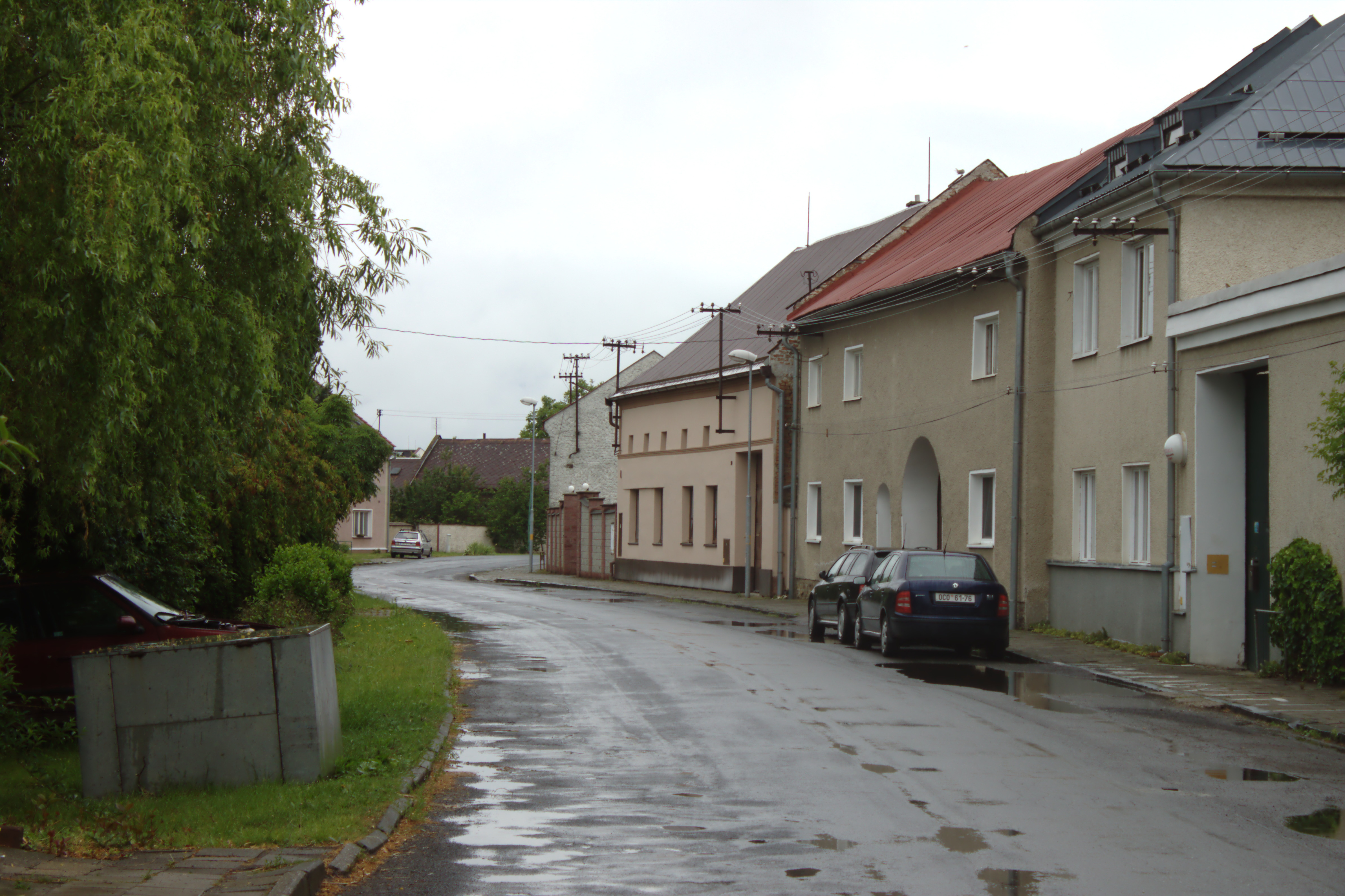 Main road in the village of Liboš, Olomouc Region, CZ